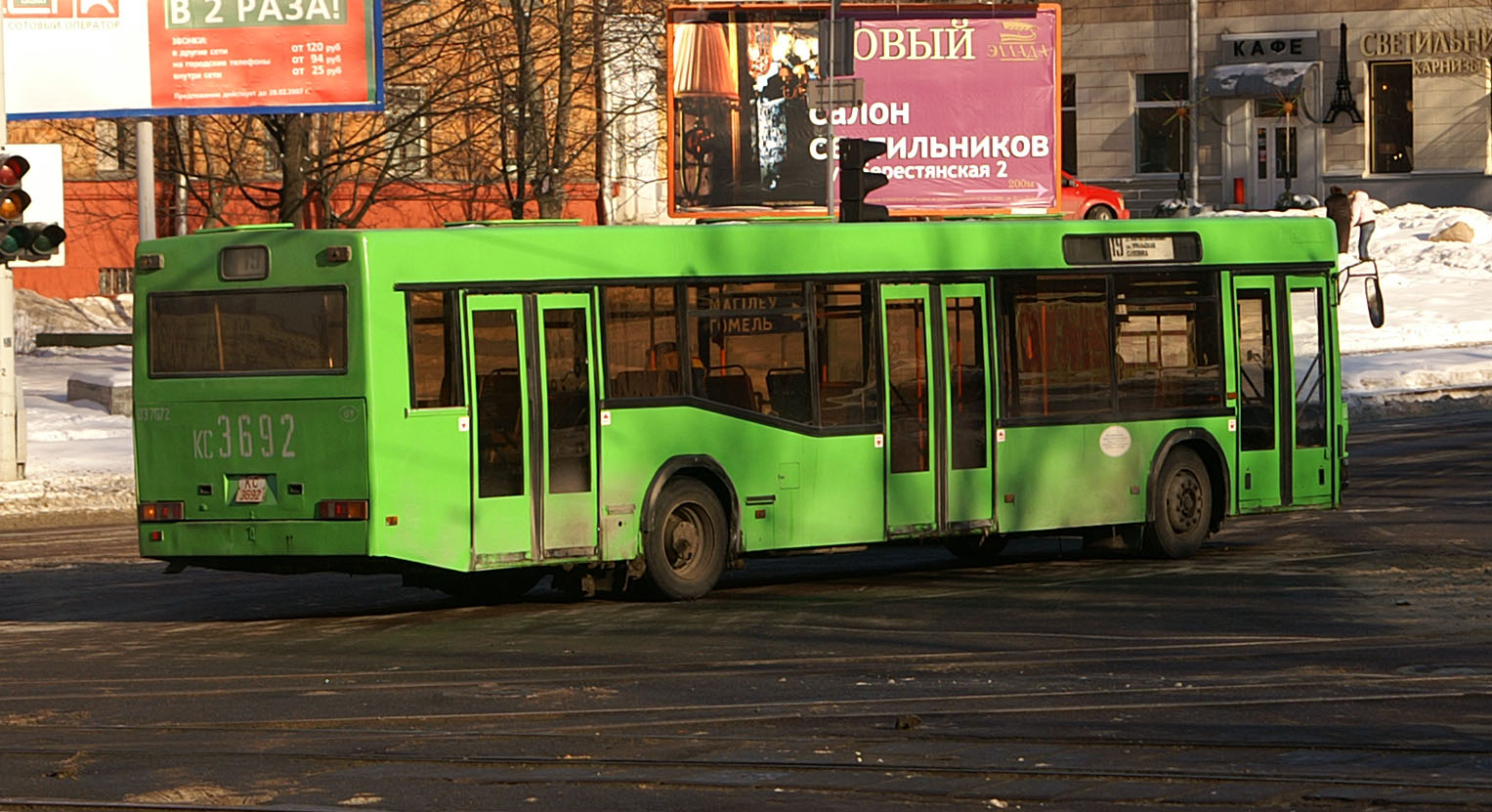 Bus "MAZ-103". Minsk, Belarus.